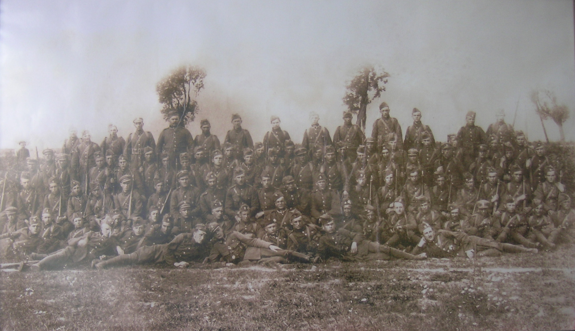 Scout Assault Company 37 Łęczycki Infantry Regiment before marching to the front in 1920. for a war with the Bolsheviks..